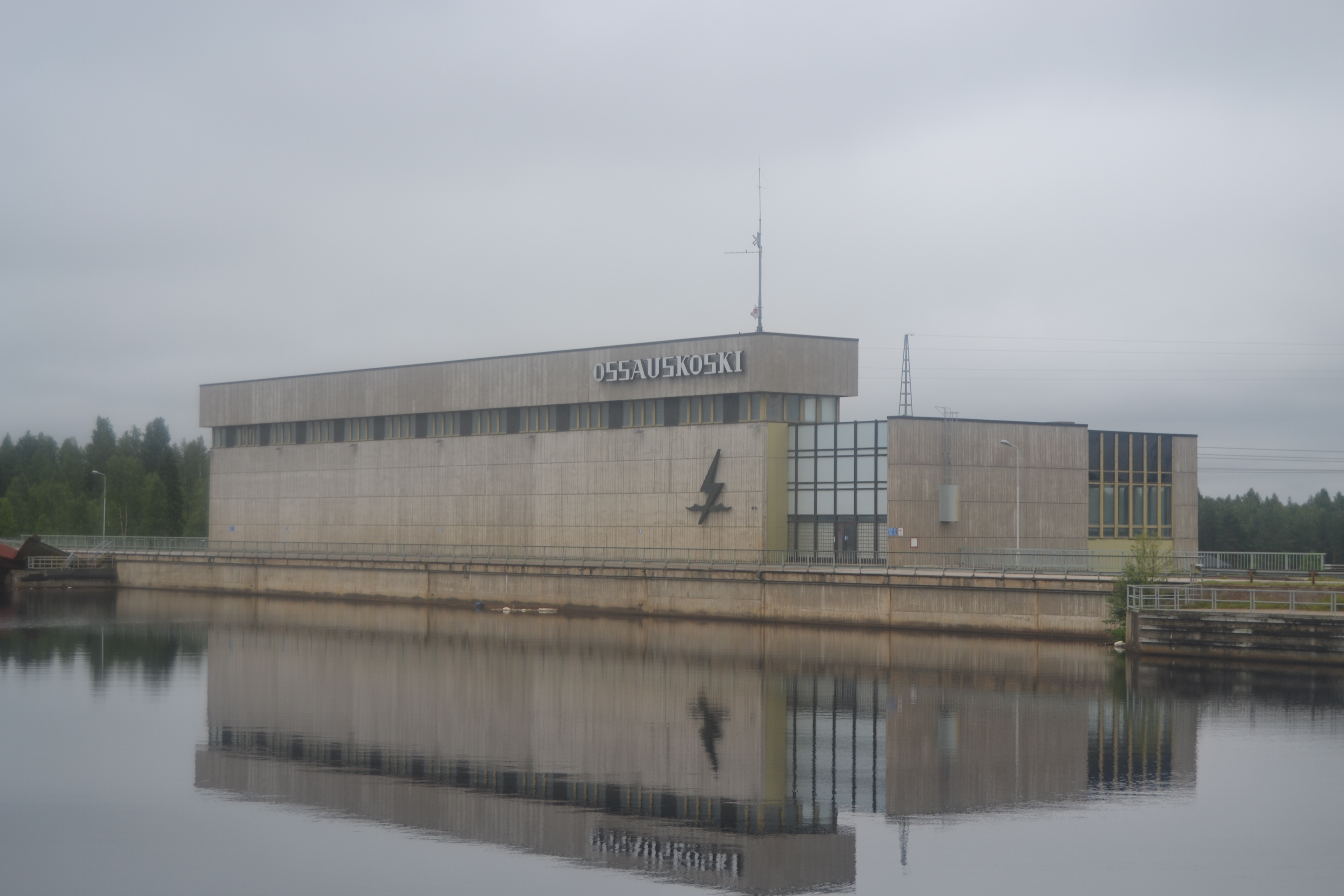 Ossauskoski hydroelectric power plant in Tervola, Finland